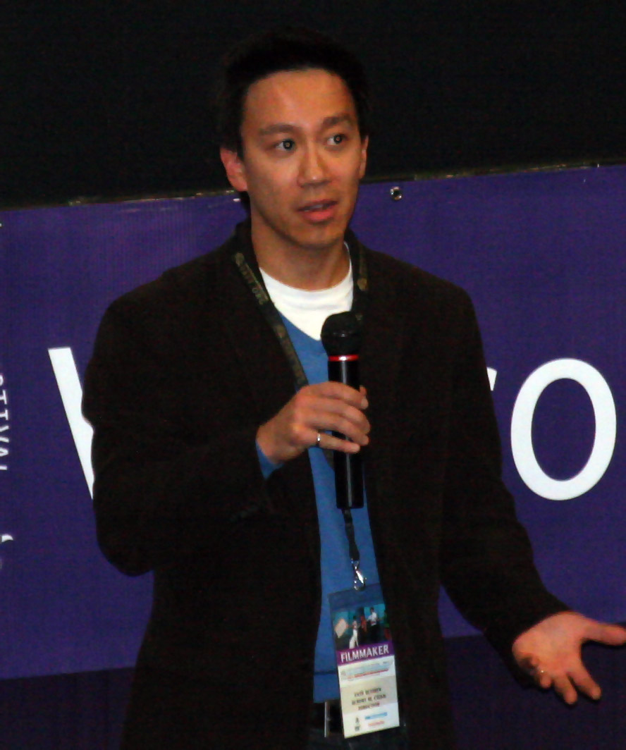 Albert M. Chan